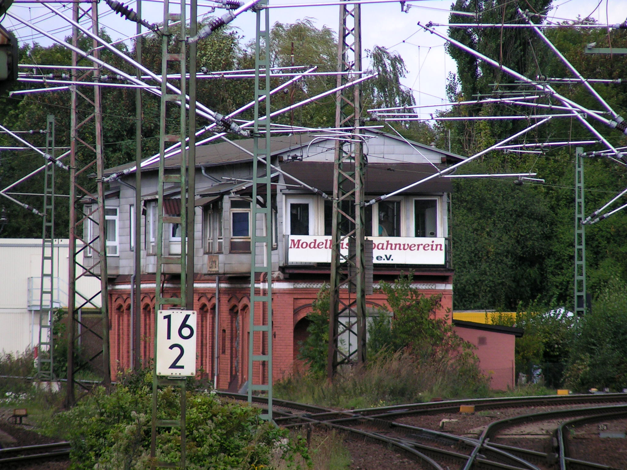 Former railway control center at Lehrte near Hanover, Germany